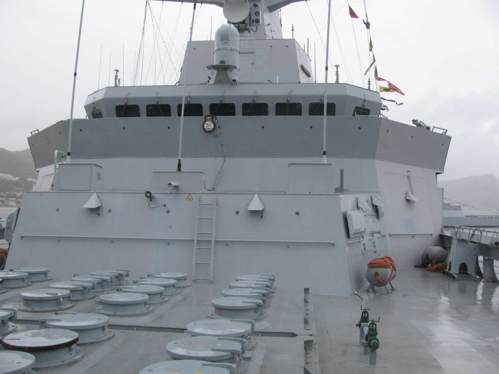 Umkhonto naval based 8-cell module